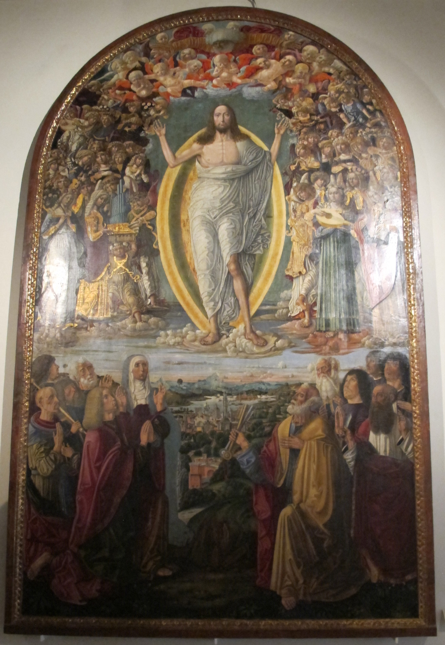 Painting in the National Pinacotheque, Siena